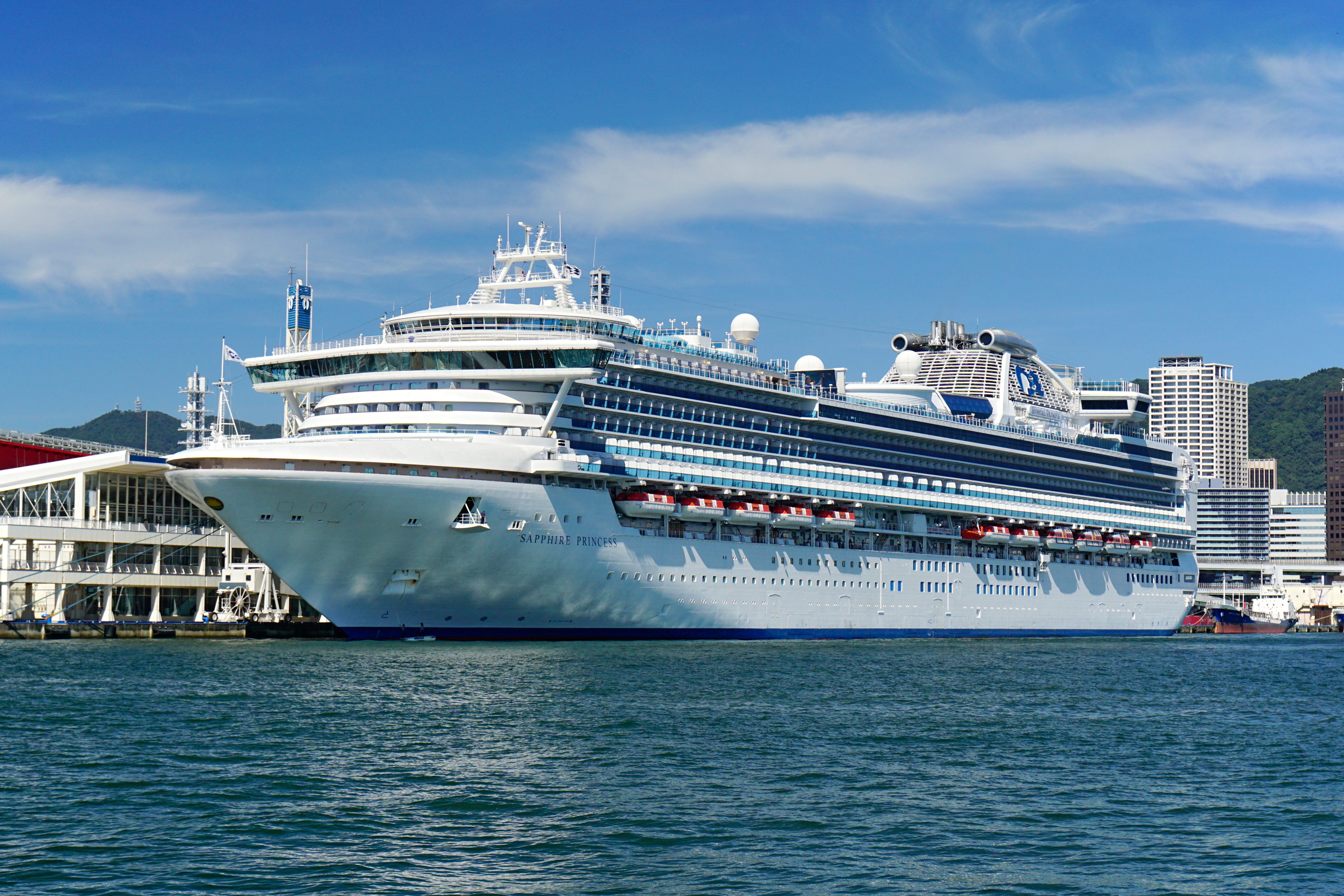 Sapphire Princess at the Kobe Port Terminal of Kobe Port, Kobe Hyogo prefecture, Japan.